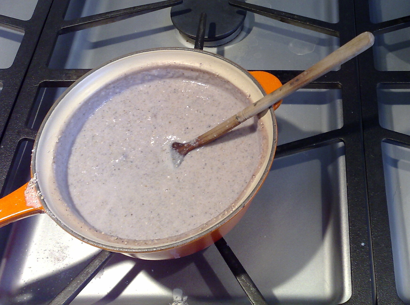 Atole a traditional cornstarch-based Mexican and Central American (where it is known as atol) hot drink. This is a New Mexican version with a nice light purple color, thicker than a drink, sweetened with date-pieces or raisins.